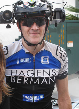 Cropped from the original photo of Jen Whalen and Lucas Brunelle